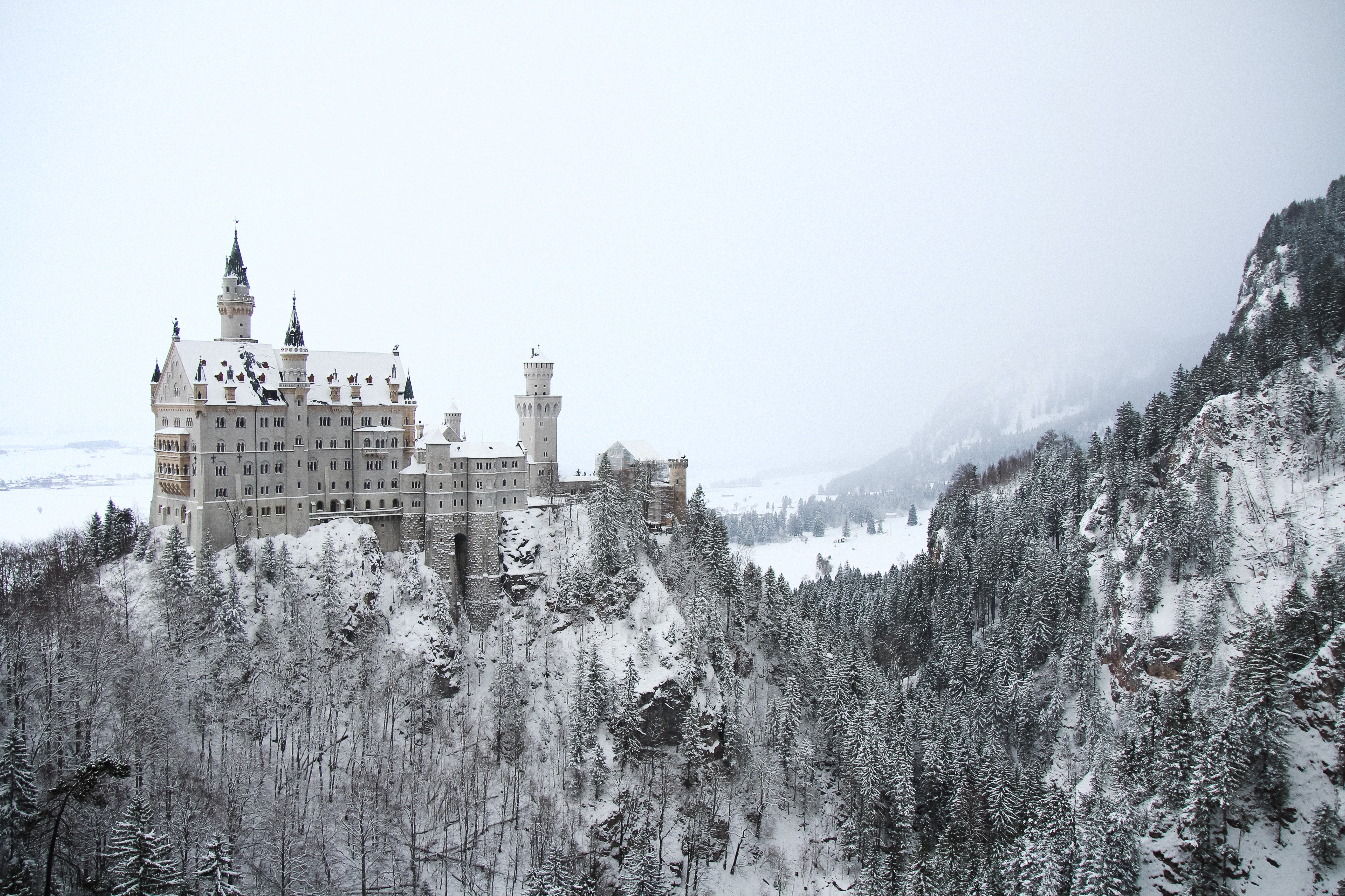 Nico Benedickt 2017